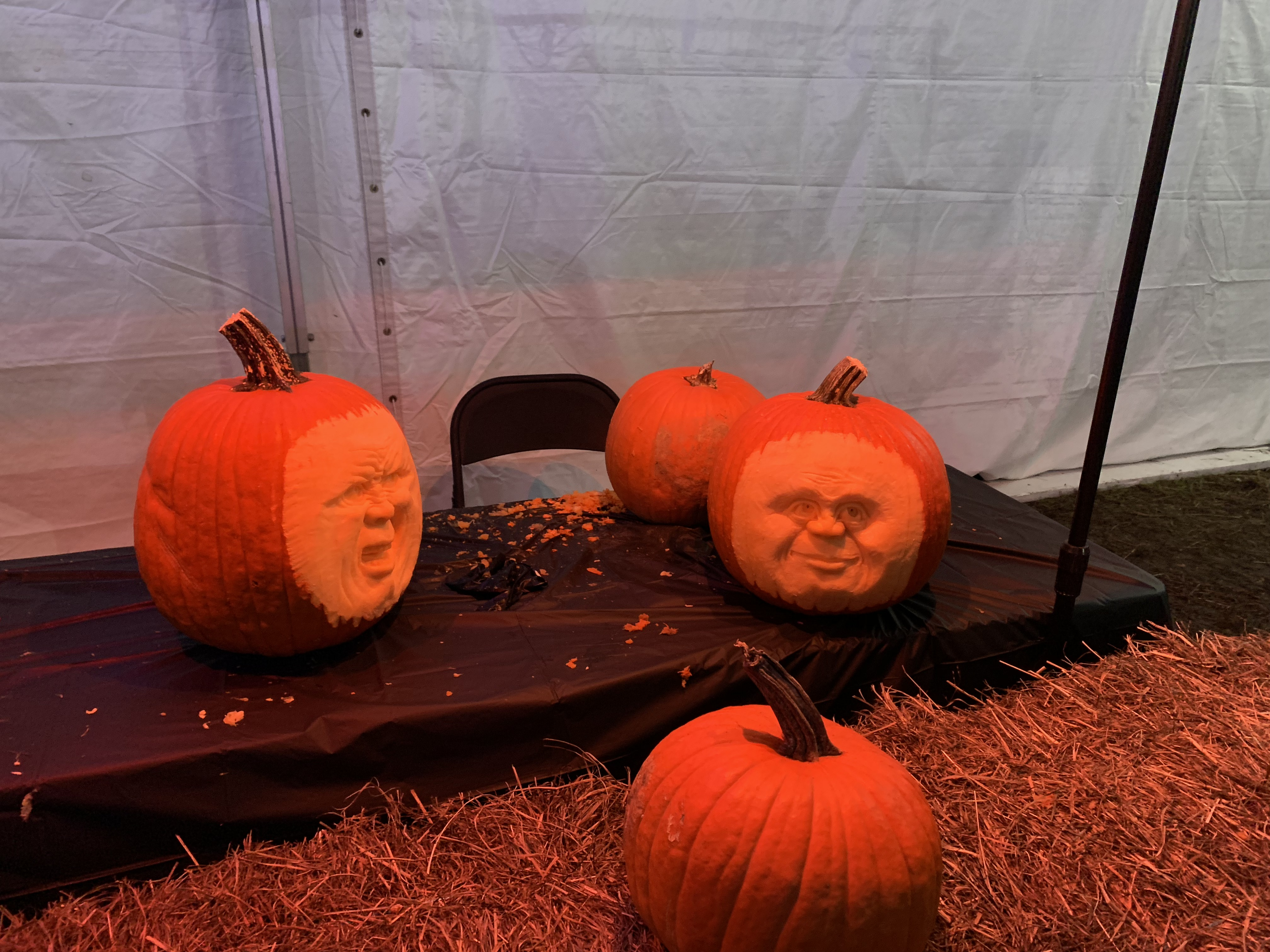 halloween pumpkins